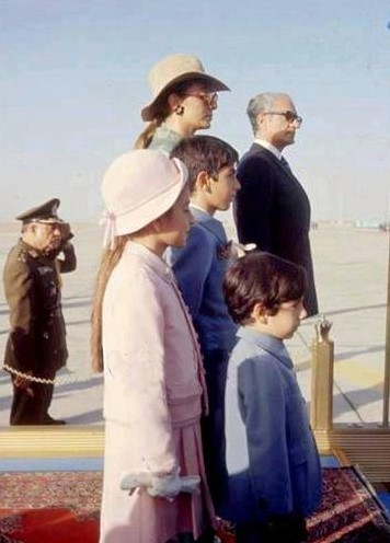 Mohammad Reza Shah and his imperial family at Shiraz Airport